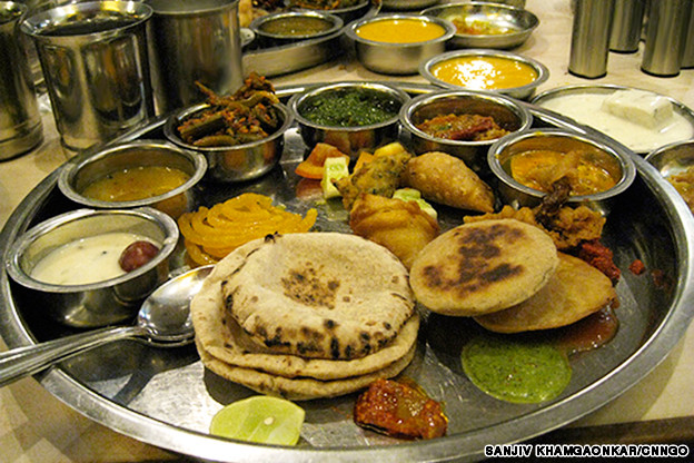 Its a Full Dish of Thakar hotel